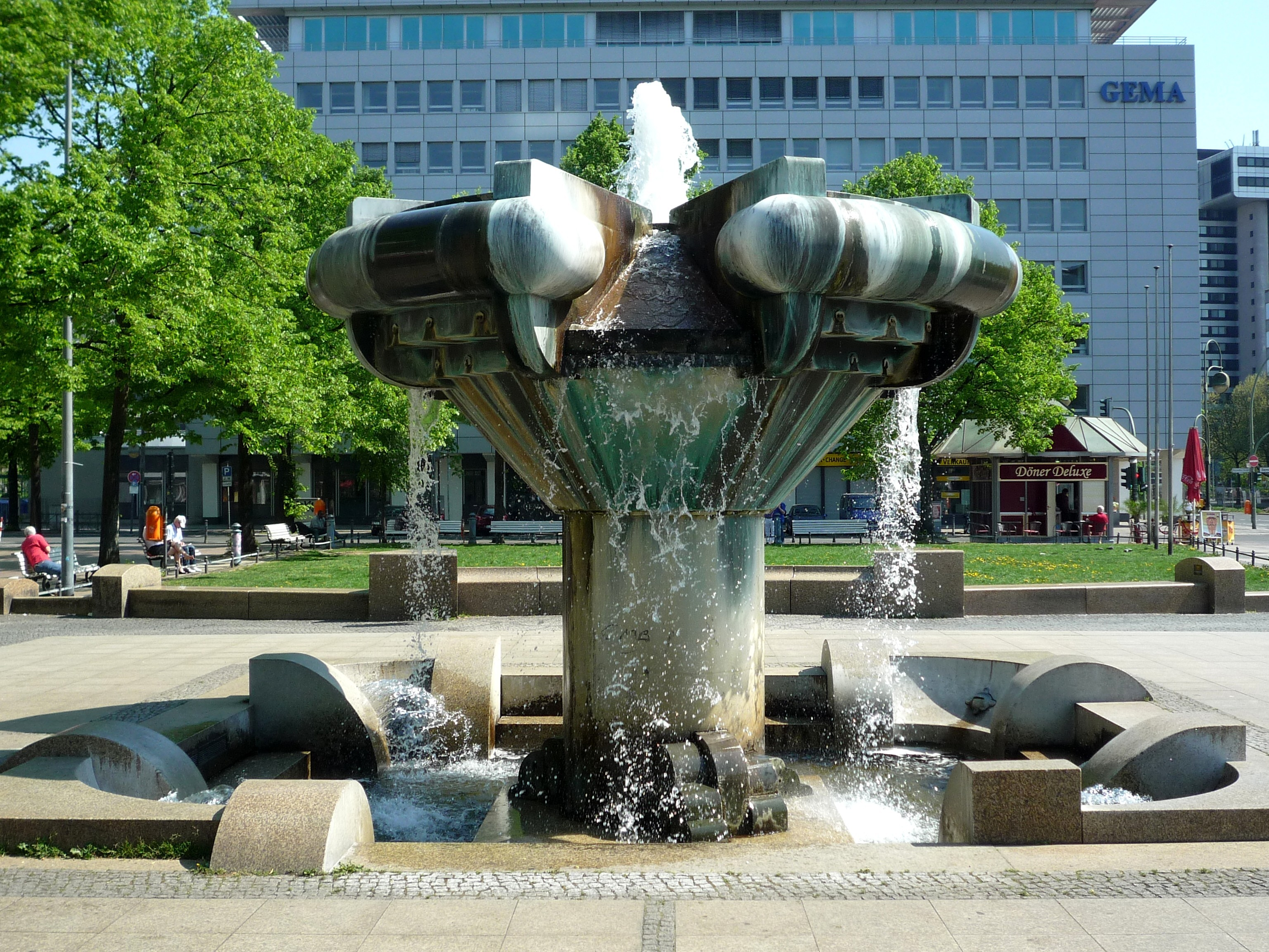 Fountain at Wittenbergplatz (Northern part) in Berlin Schöneberg (Germany). Design by Waldemar Grzimek (1918-1984). Detail.